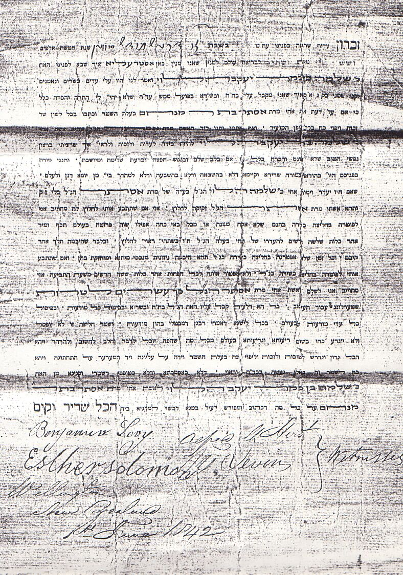 The thick parchment (?) document names, in Hebrew, the bride and groom, the groom's father (Jacob Levy), and the groom's brother, Solomon Levy. It includes a promise to take care of the bride (and/or offer to marry her) if the husband dies before any children are born (an ancient custom that was not expected to be carried out, but which represented that the brother would care for his sister in law if needed.The signatures are in English, and mark the wedding of two London Jews, Esther Solomon, whose writing is semi-illiterate, and Benjamin Levy, whose writing is more polished, possibly a reflection of his patrons at the Jews Hospital, a LOndon charity that educated and cared for impoverished Jewish children, provofong rudimentary vocational training but requiring rigorous adherence to Jewish rites. On the certificate, the witnesses are listed (two Jewish non-relatives, as was customary). Abraham Hort and Nathaniel Levin were important early settlers of wellington, and this marks the first Jewish wedding in Wellington, New Zealand.